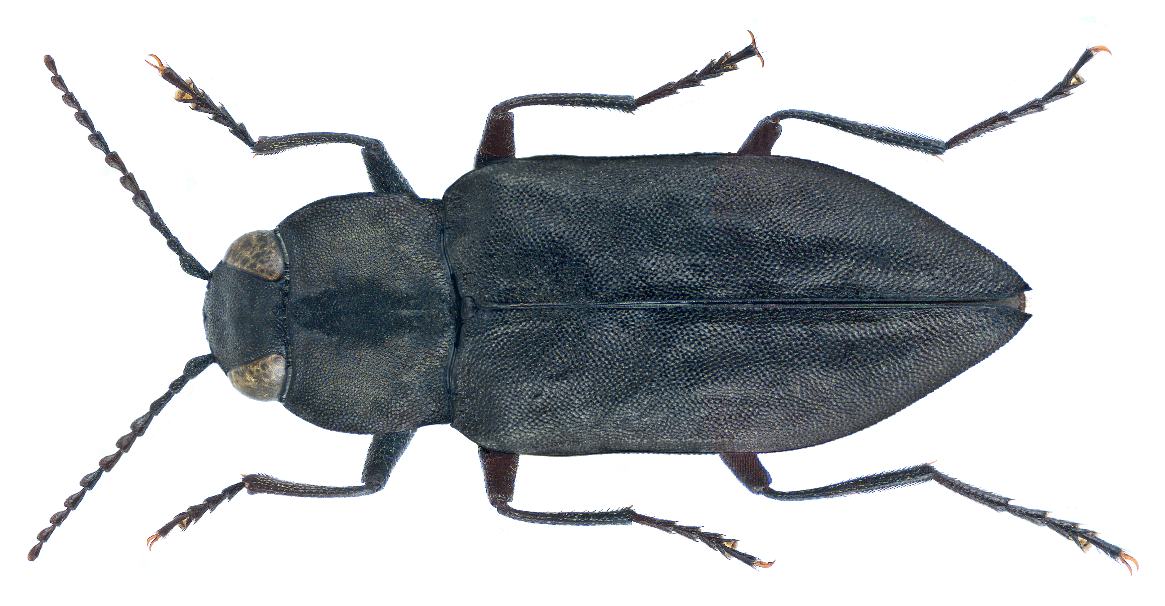 Family: Buprestidae Size: 11,0 mm (8,0 to 11,0 mm) Distribution: holarctic Ecology: development in fire-damaged trees Location: England, Wellington College leg.det. P.Harwood, VIII.1918 Coll. Oxford Museum of Natural History Photo: U.Schmidt, 2015